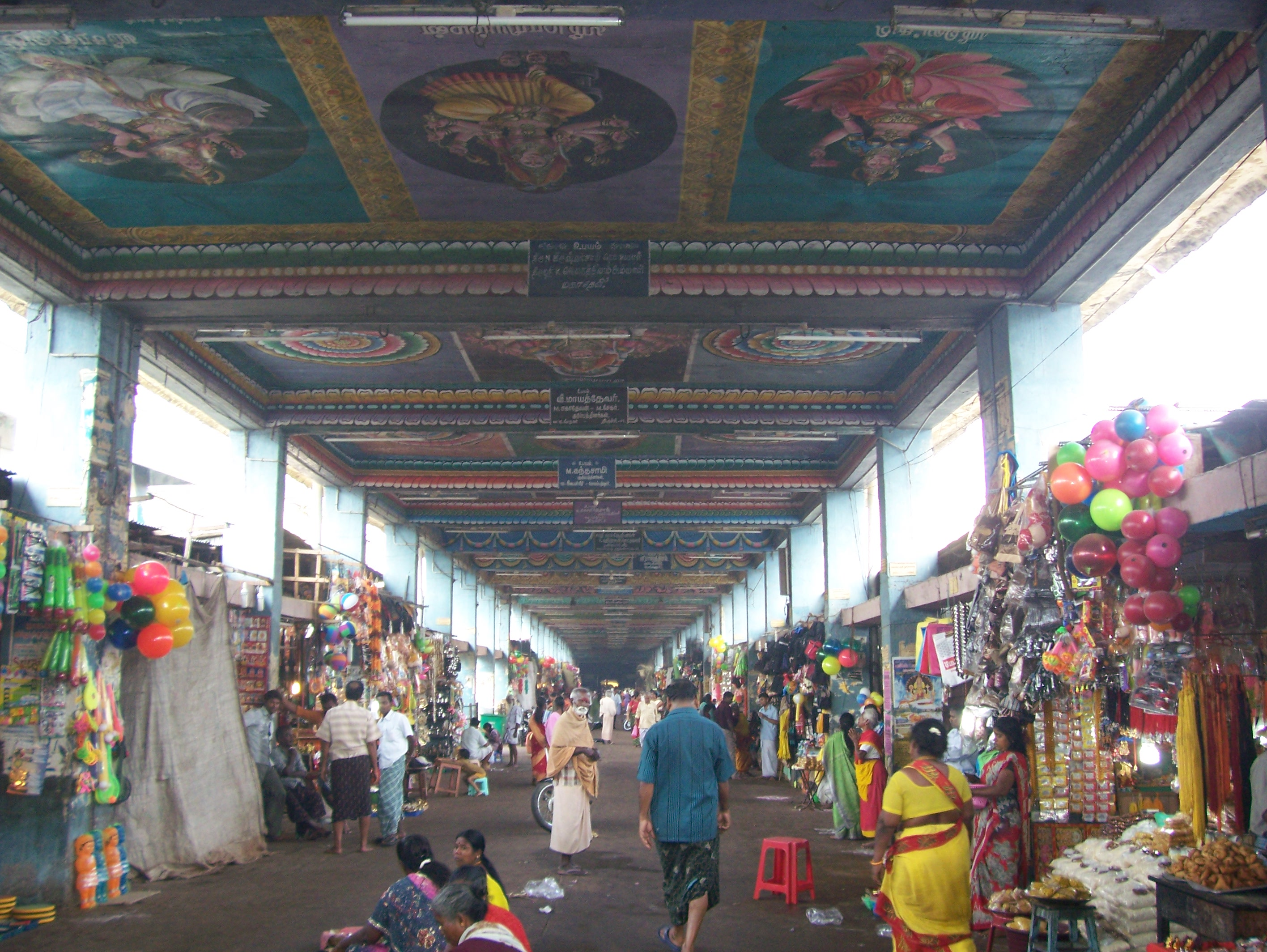 Samayapuram Mariyamman Temple Corridor at Samayapuram, Tiruchirappalli.